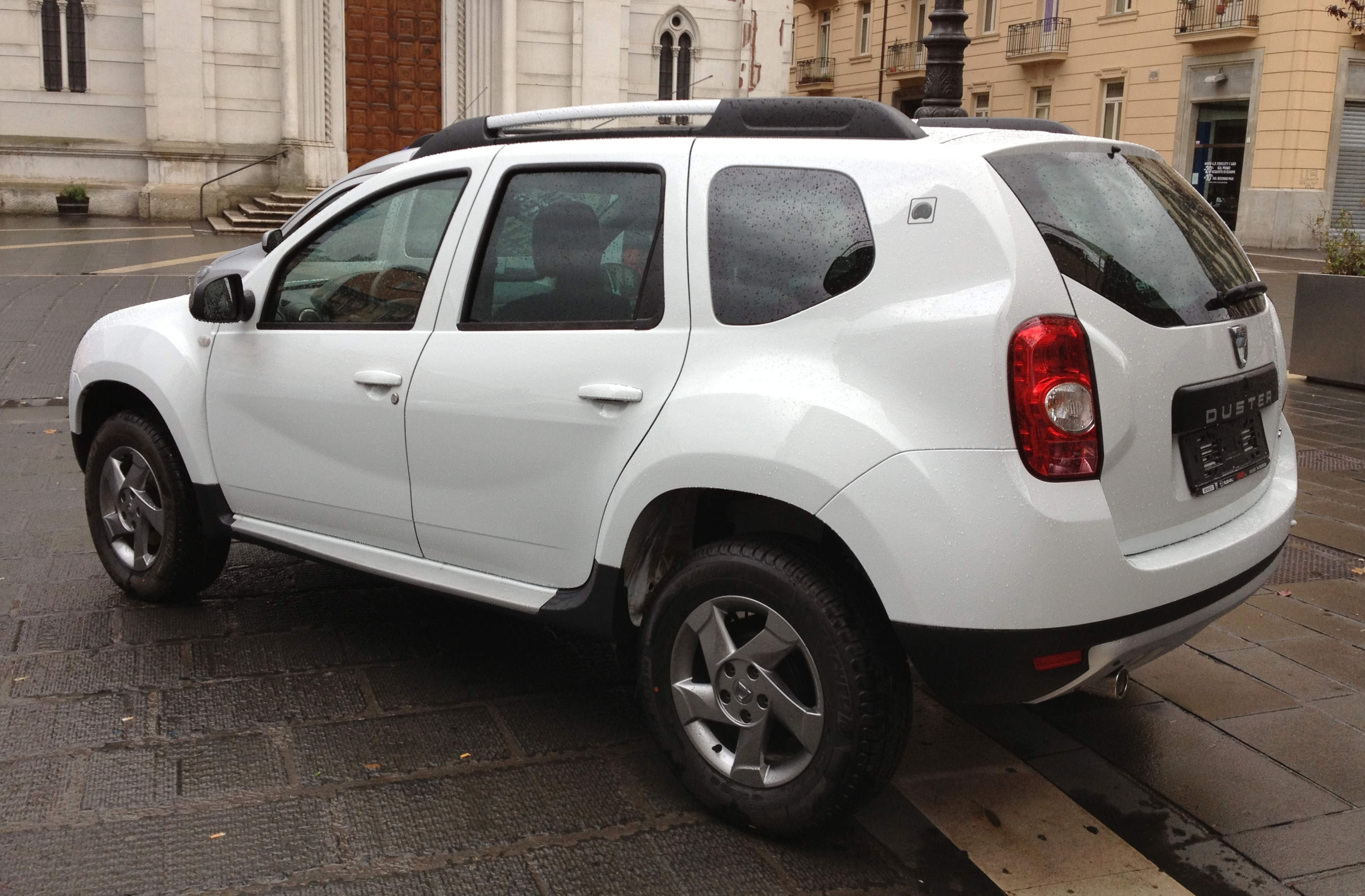 2012 Dacia Duster 1.5 dCI rear in Avellino, Italy